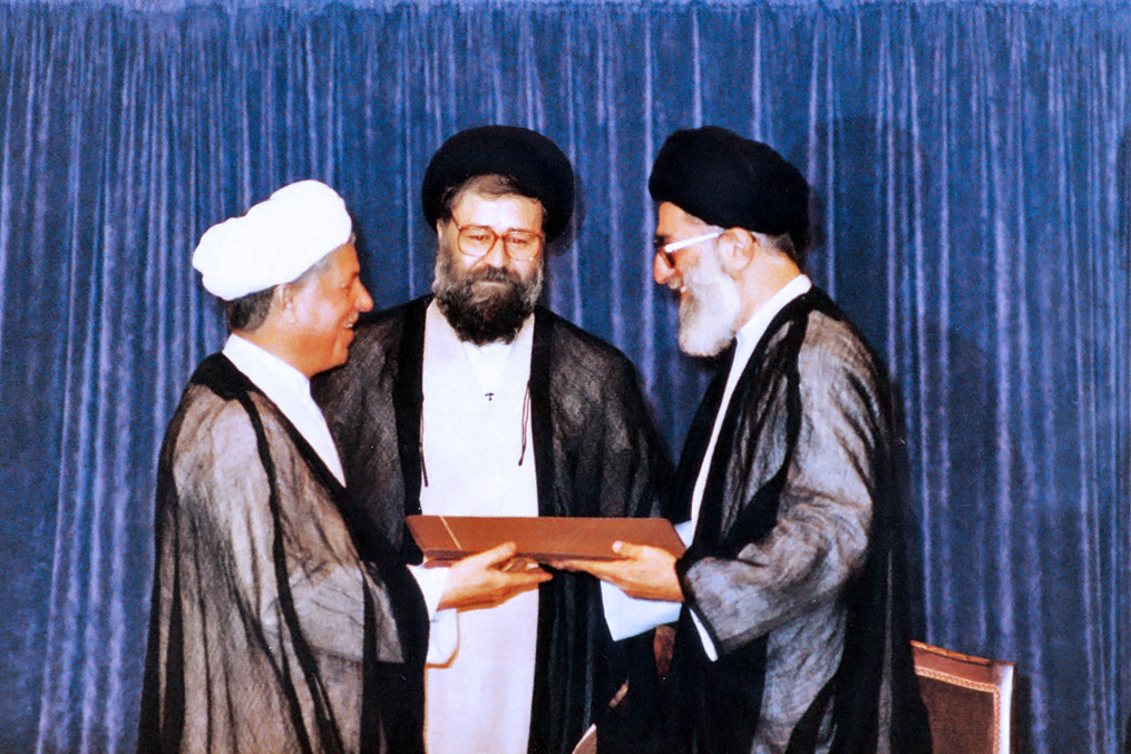 Second term Inauguration of presidency of Akbar Hashemi Rafsanjani